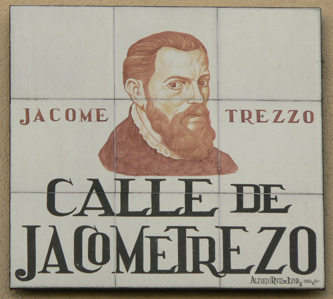 Sign of Calle de Jacometrezo (street, Centro district) in Madrid (Spain)